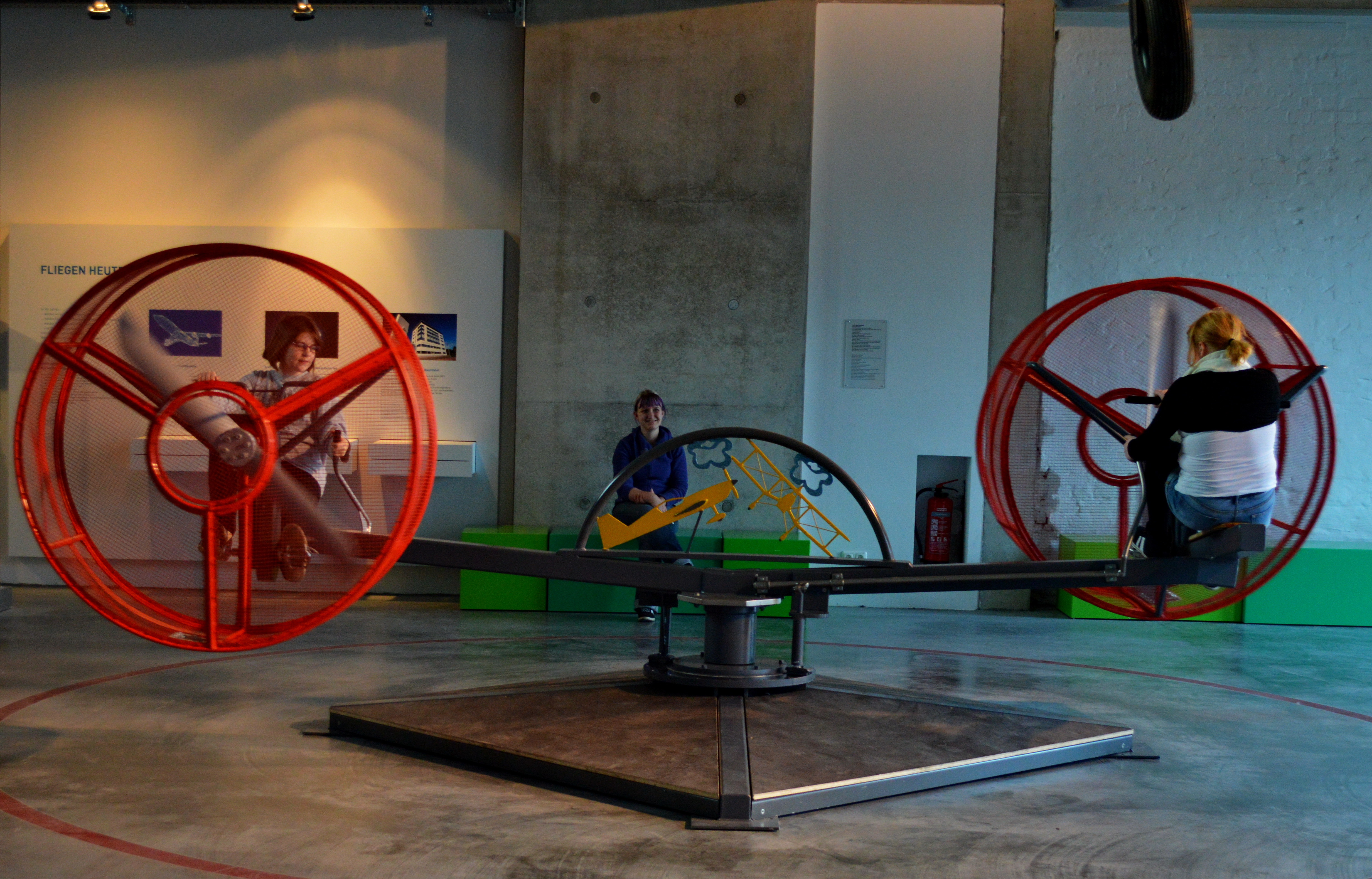 Propeller carousell in the air hall of The Mecklenburg-Vorpommern State Museum of Technology